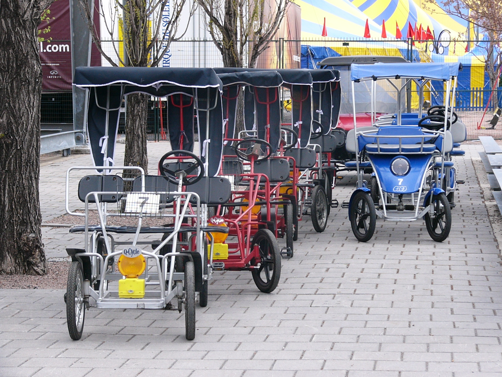 A line up of Quadricycle International Q-Cycles and Quad-3s on the Jacques Cartier Dock in the tourist area of Old Montreal, Quebec, Canada.